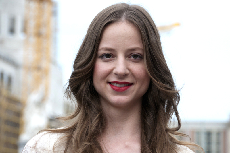 Photocall of DAS ERSTE Movie: “Der Traum von Olympia - Die Nazi-Spiele von 1936”